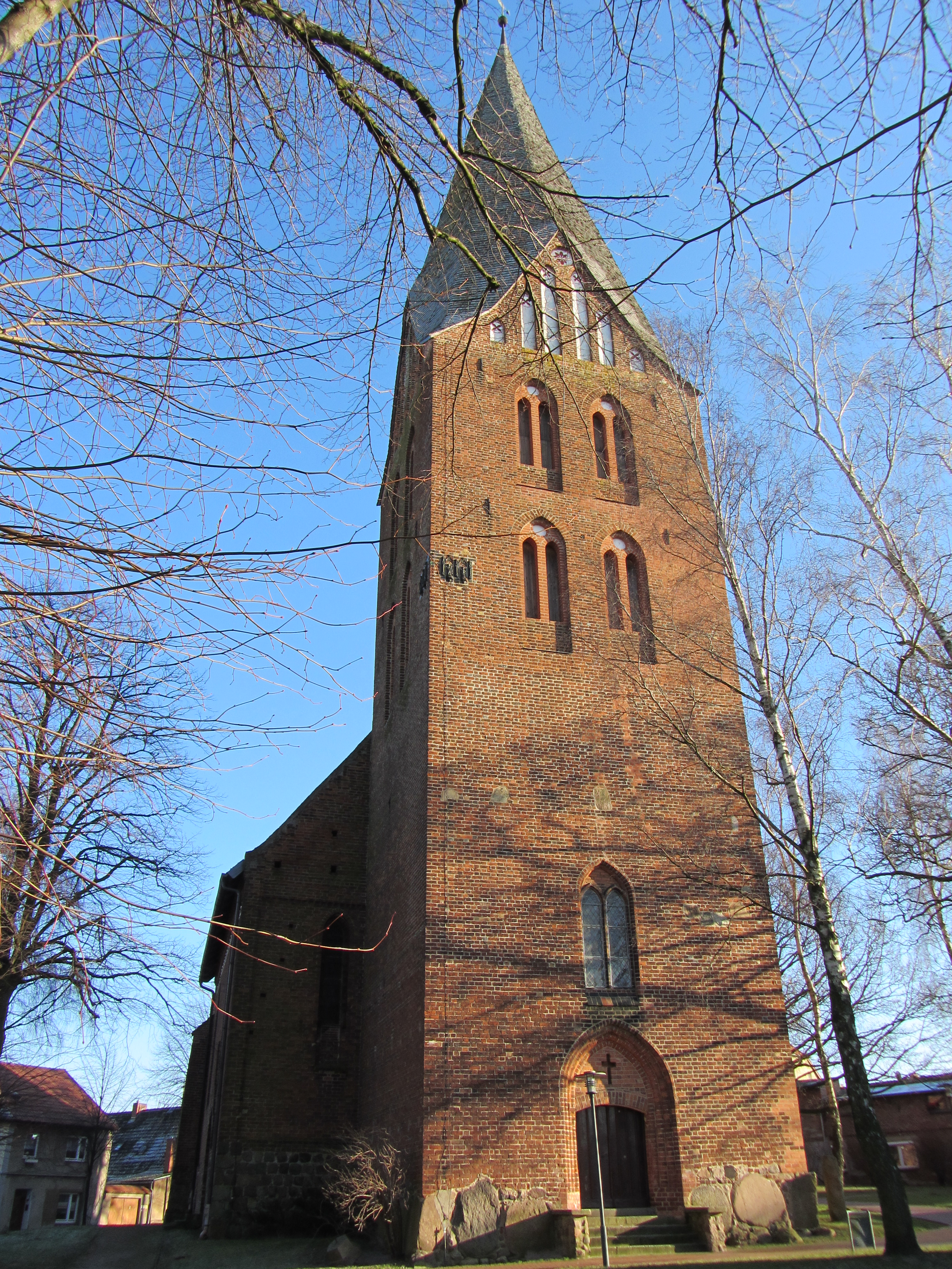 Church in Neubukow, district Rostock, Mecklenburg-Vorpommern, Germany